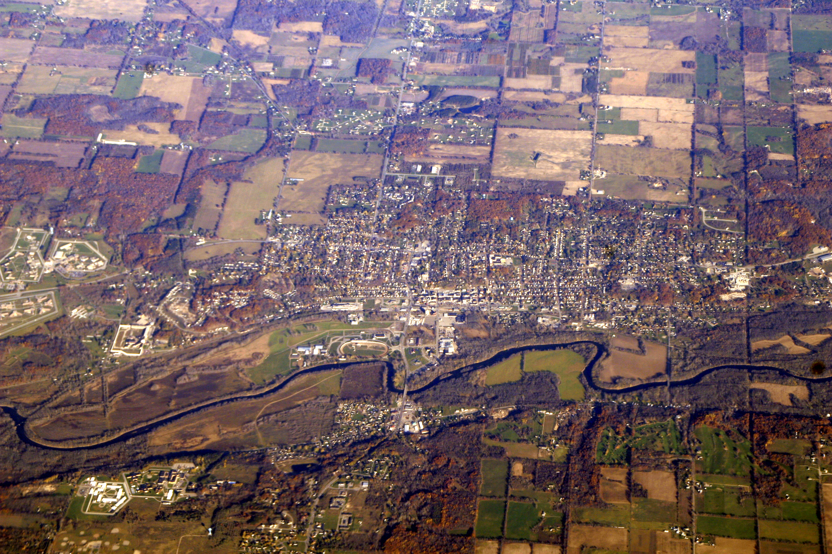 Aerial photo of Ionia, Michigan and the Grand River.